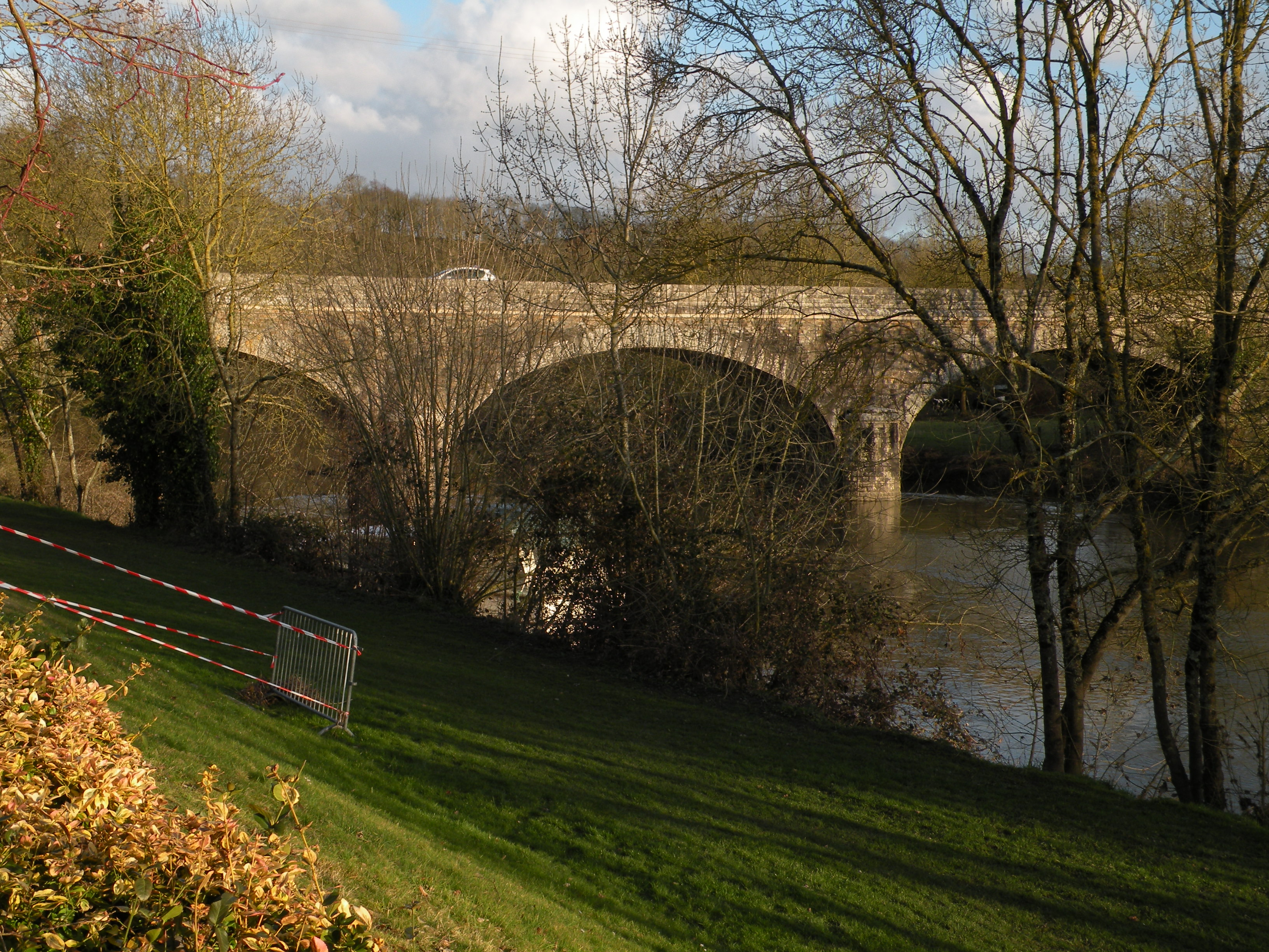 Bridge over the Sèvre Nantaise in La Haie-Fouassière